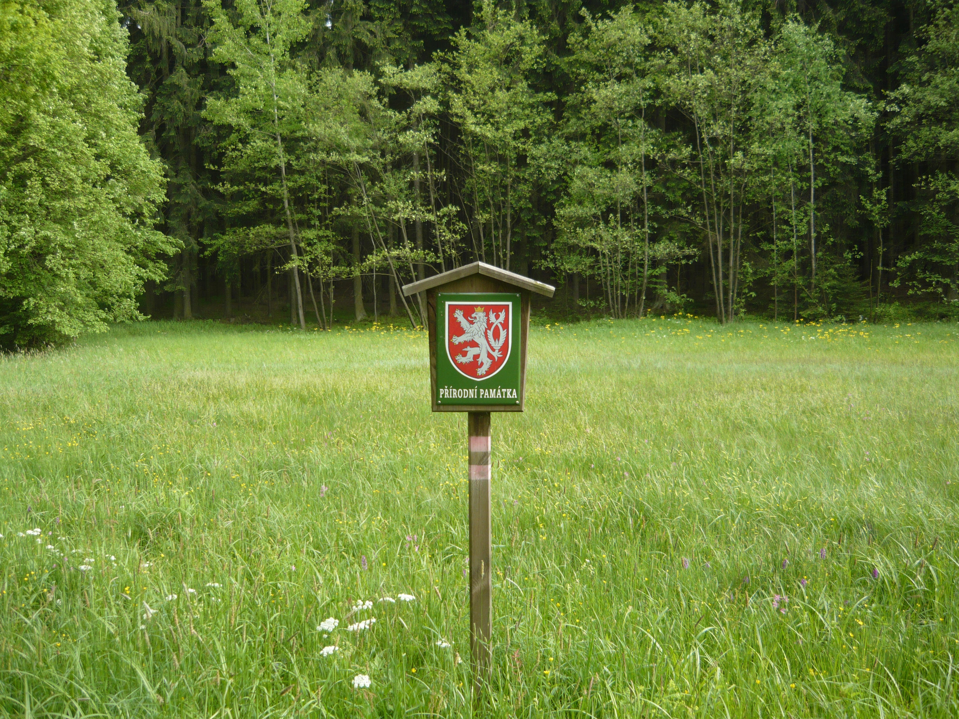 Natural monument Kozlov near Želeč village, Tábor District, Czech Republic